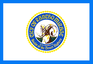 The official city flag of Rancho Mirage, California. Additional information about the flag can be found here.